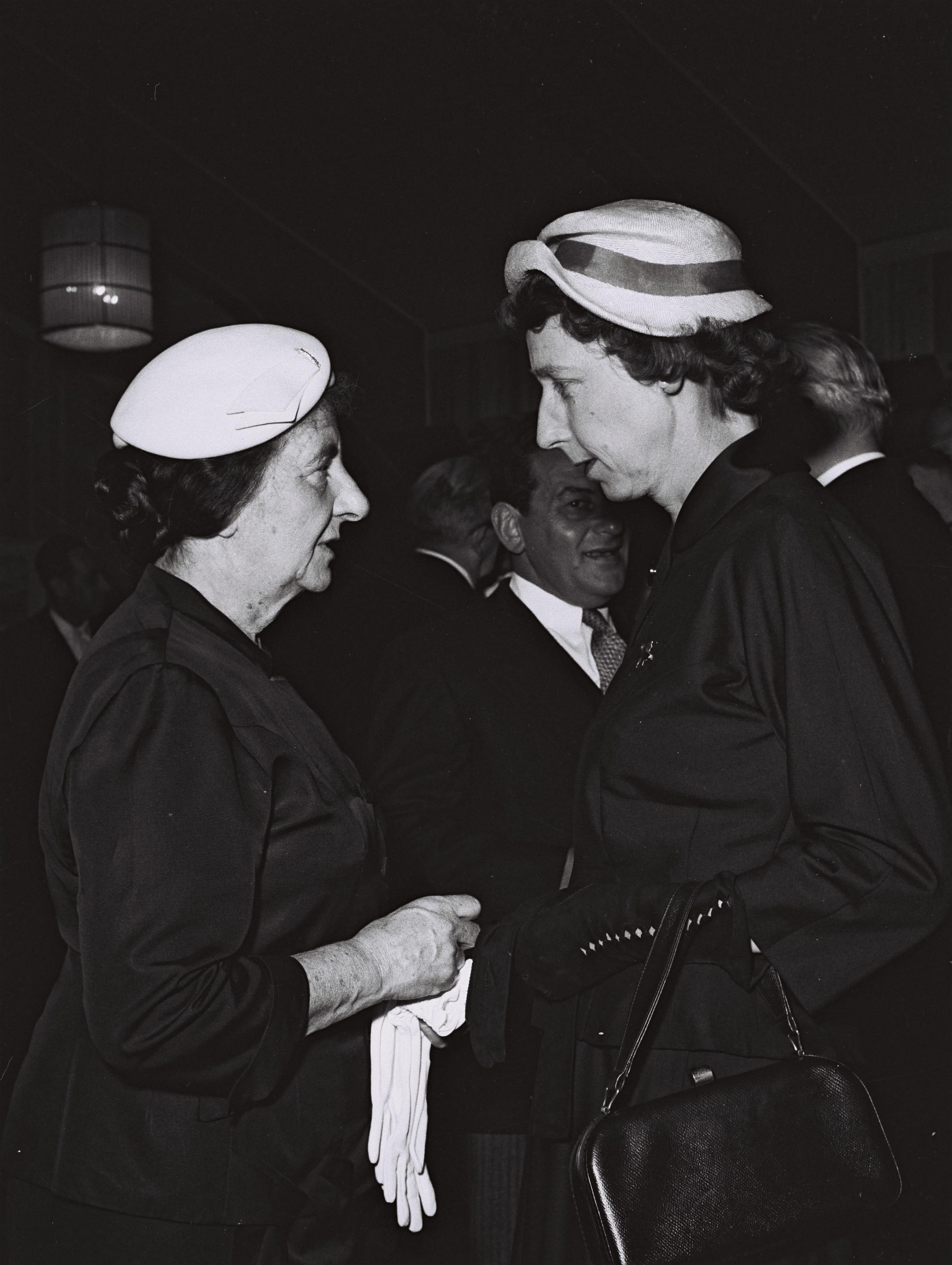 Foreign Minister Golda Meir and Margaret Meagher, Canadian Ambassador to Israel, on Israel's Independence Day 1959